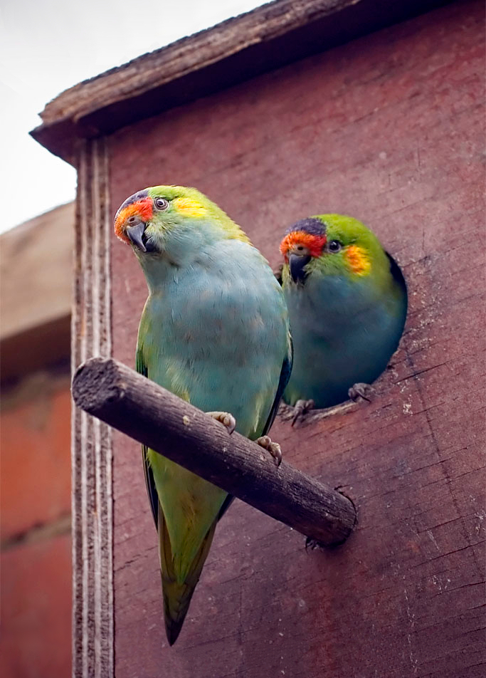 Purple-crowned Lorikeet, (Glossopsitta porphyrocephala). Photo taken at the Rainbow Jungle in Kalbarri, Western Australia.